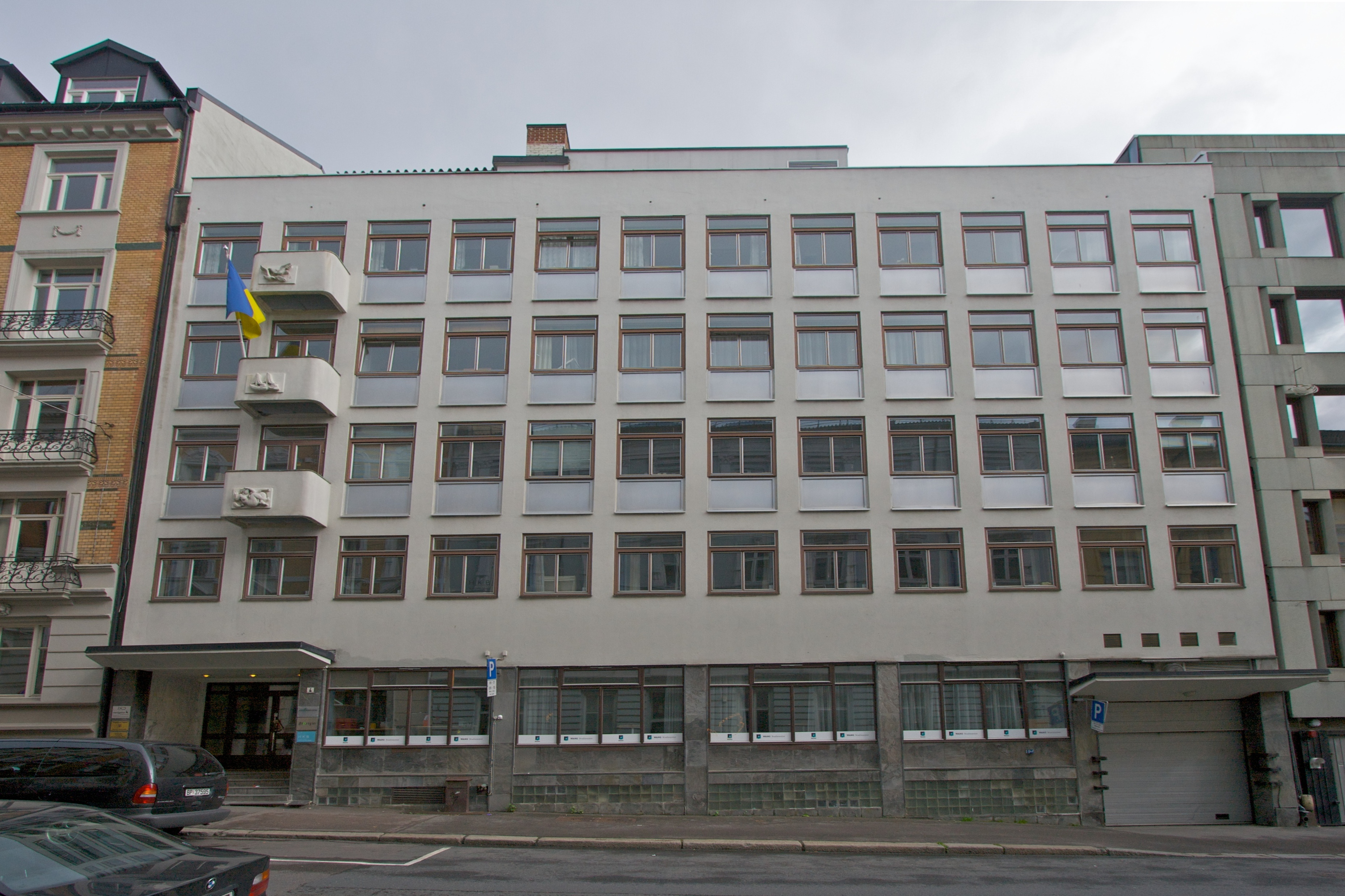 Arbins gate 4, Oslo, Norway, housing (among other things) the Ukrainian Embassy.